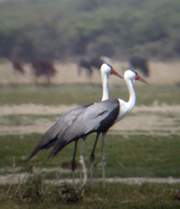 Two Wattled Cranes Grus carunculata, photographed in Ethiopia.